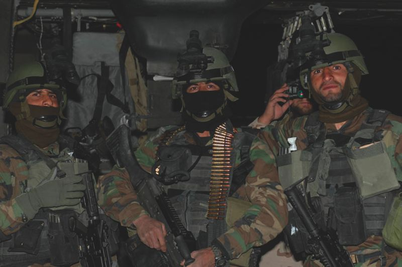 Members of the Afghan National Army's 201st Commando Kandak prepare to deploy on their first mission in Southern Afghanistan, Feb., 19, 2008. These Afghan commandos are among the very best troops of the Afghan army, born from their close relationship with United States Army Special Forces soldiers.